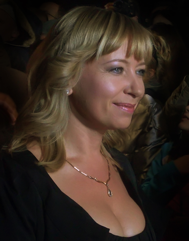 Polish actress Dorota Segda at Polish Film Festival in Gdynia.